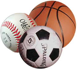 Sports icon for Portals